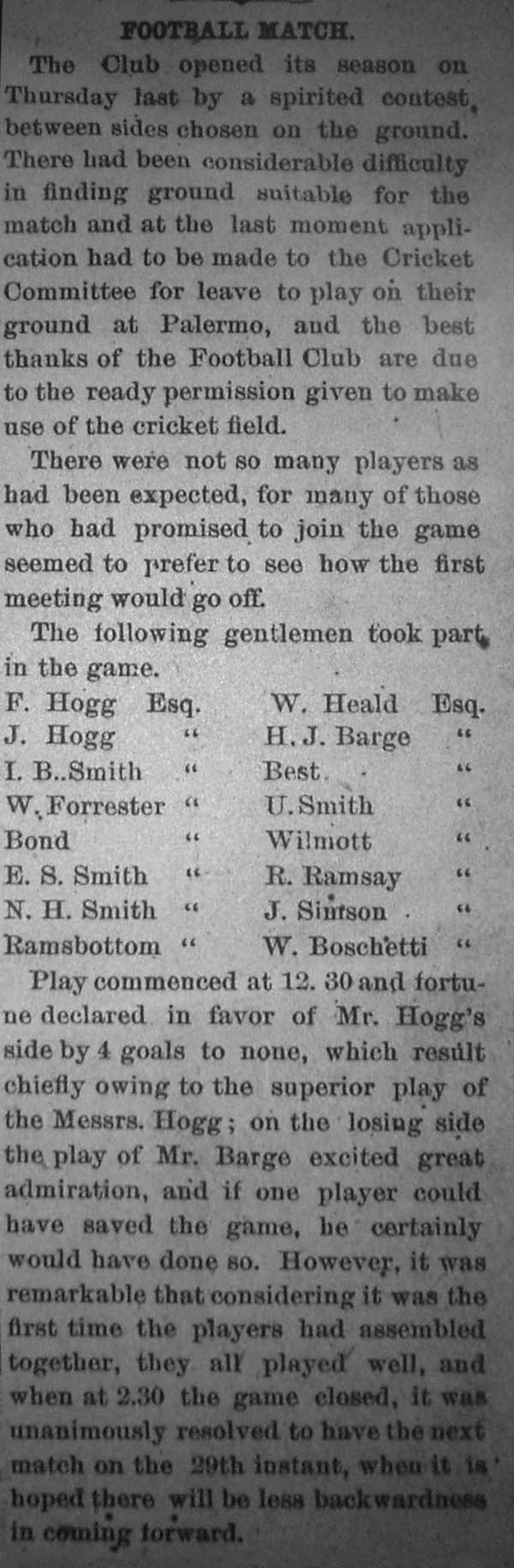 Chronicle of the first association football match played in Argentina, published by The Standard newspaper in 1867. The game was played between members of the Buenos Aires Cricket Club in club's field sited in Palermo, Buenos Aires.